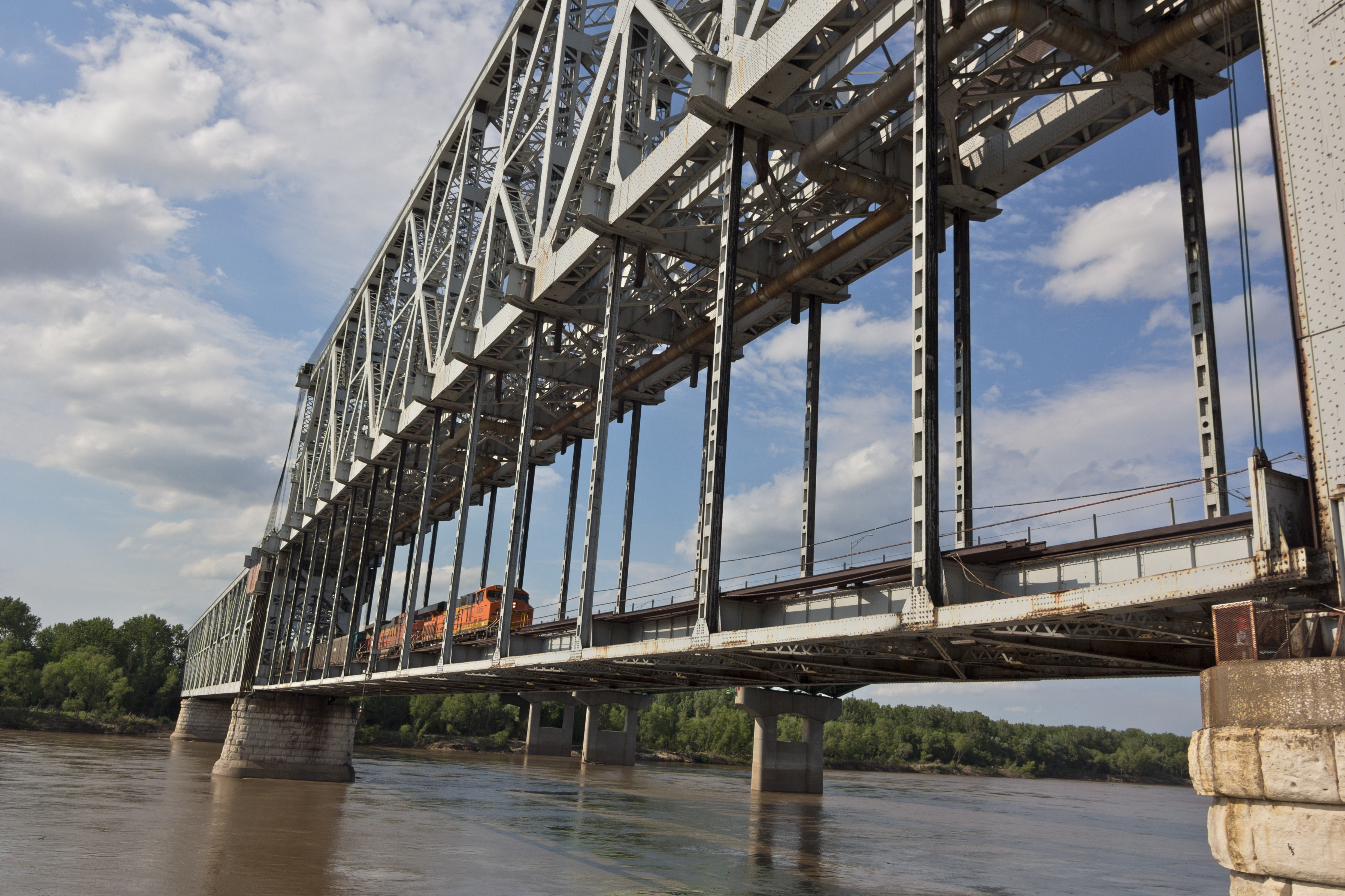 A close-up view, from the riverbank, of the ASB Bridge with a train crossing.